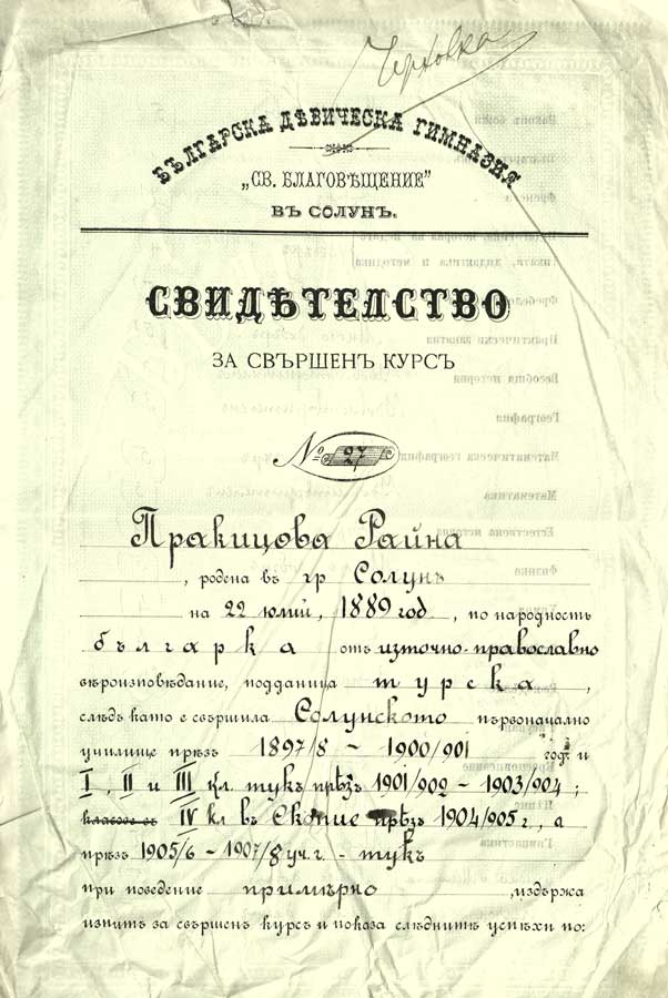 Graduation diploma issued by the Holy Annunciation Bulgarian Girls' School of Solun (Thessaloniki).